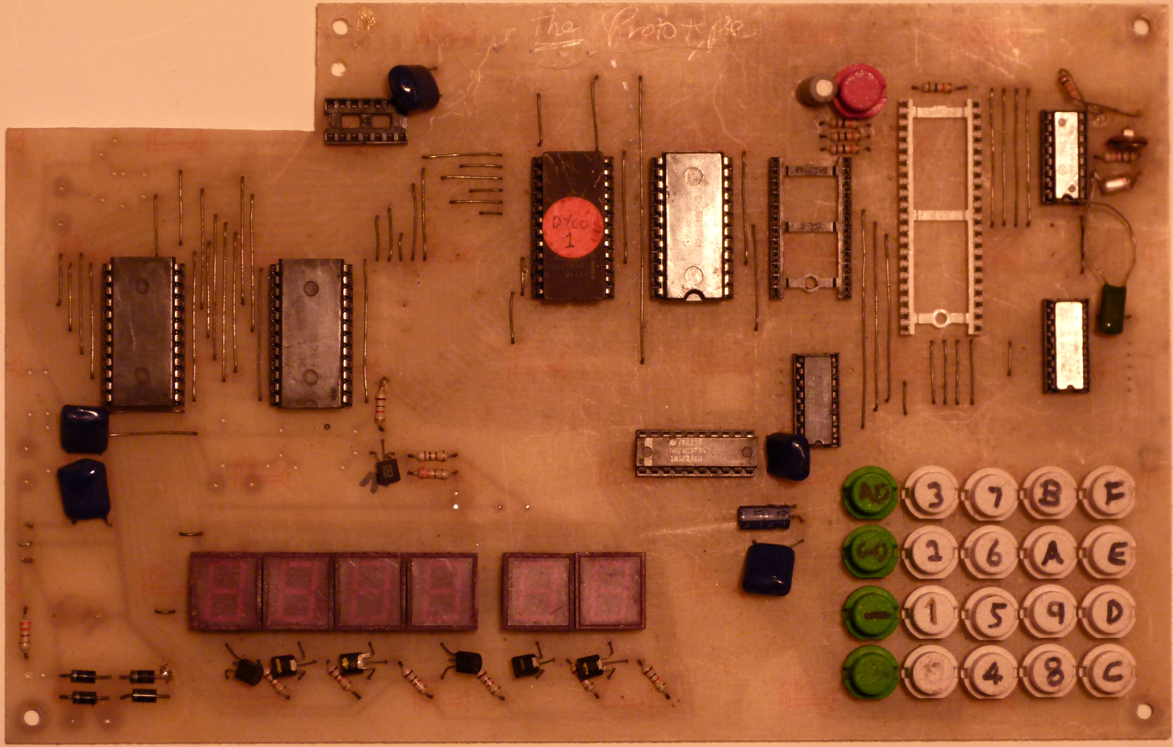 Contract Electronic Manufacturing Services A Complete Guide on Design, Prototyping and Manufacturing of an innovative electronic product. This is the first prototype of the Talking Electronics Computer to work without corrections to the PCB trackwork.